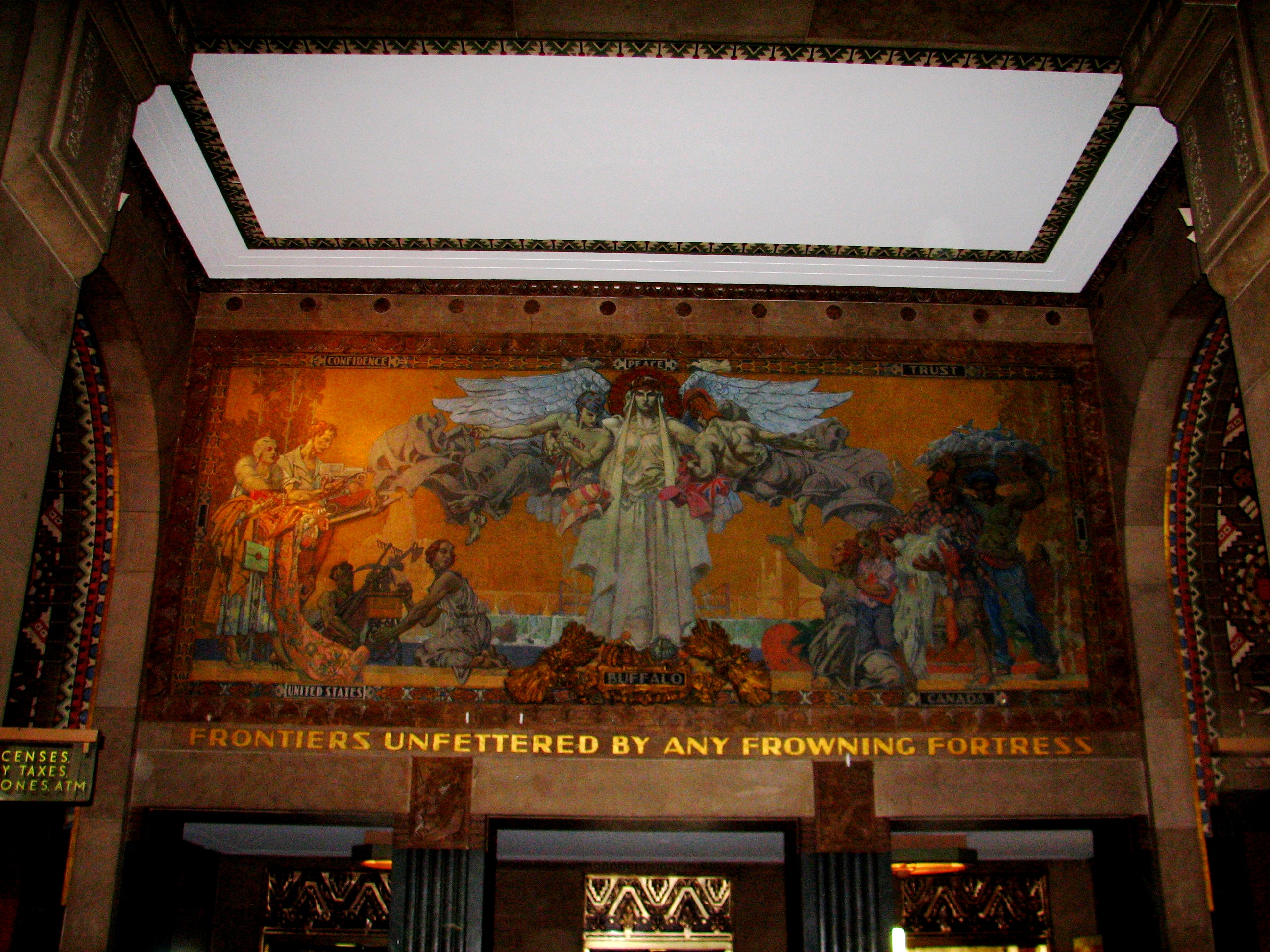 Mural by William de Leftwich Dodge in main entrance hall of Buffalo City Hall in Buffalo, New York.